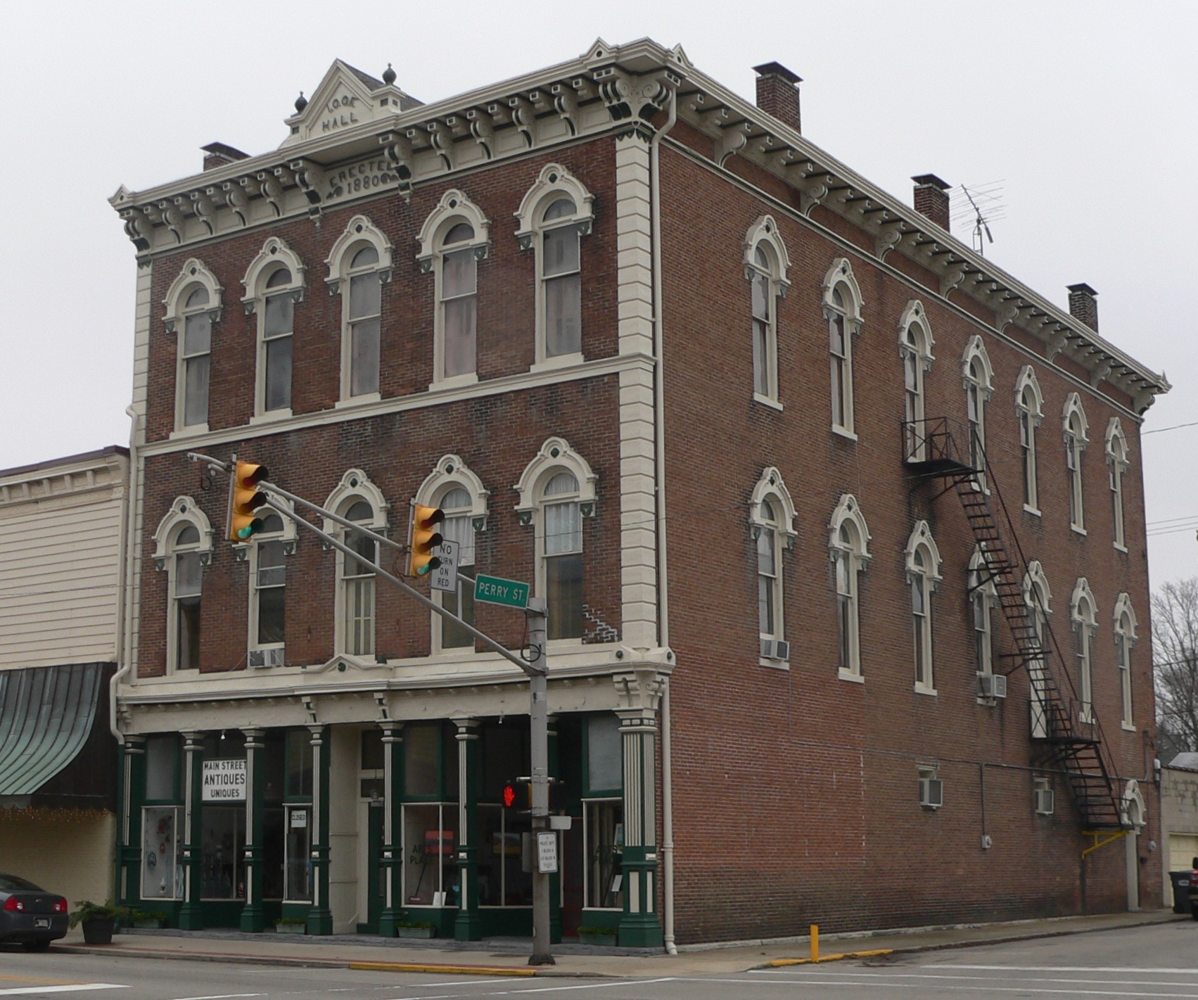 I.O.O.F. Hall, located at northwest corner of Main and Perry Streets in Hagerstown, Indiana; seen from the southeast.